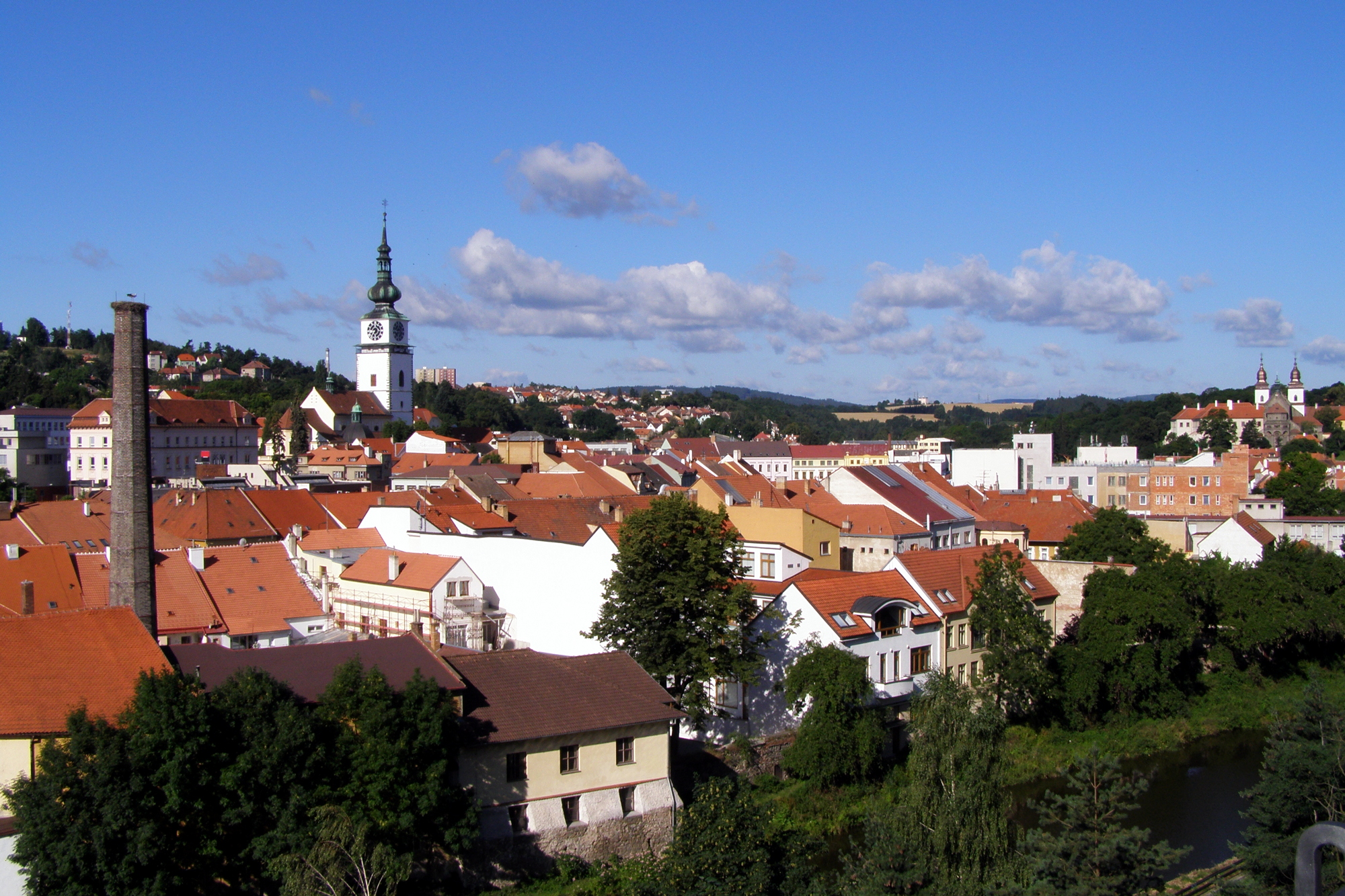 Třebíč-Vnitřní Město. View to the centre